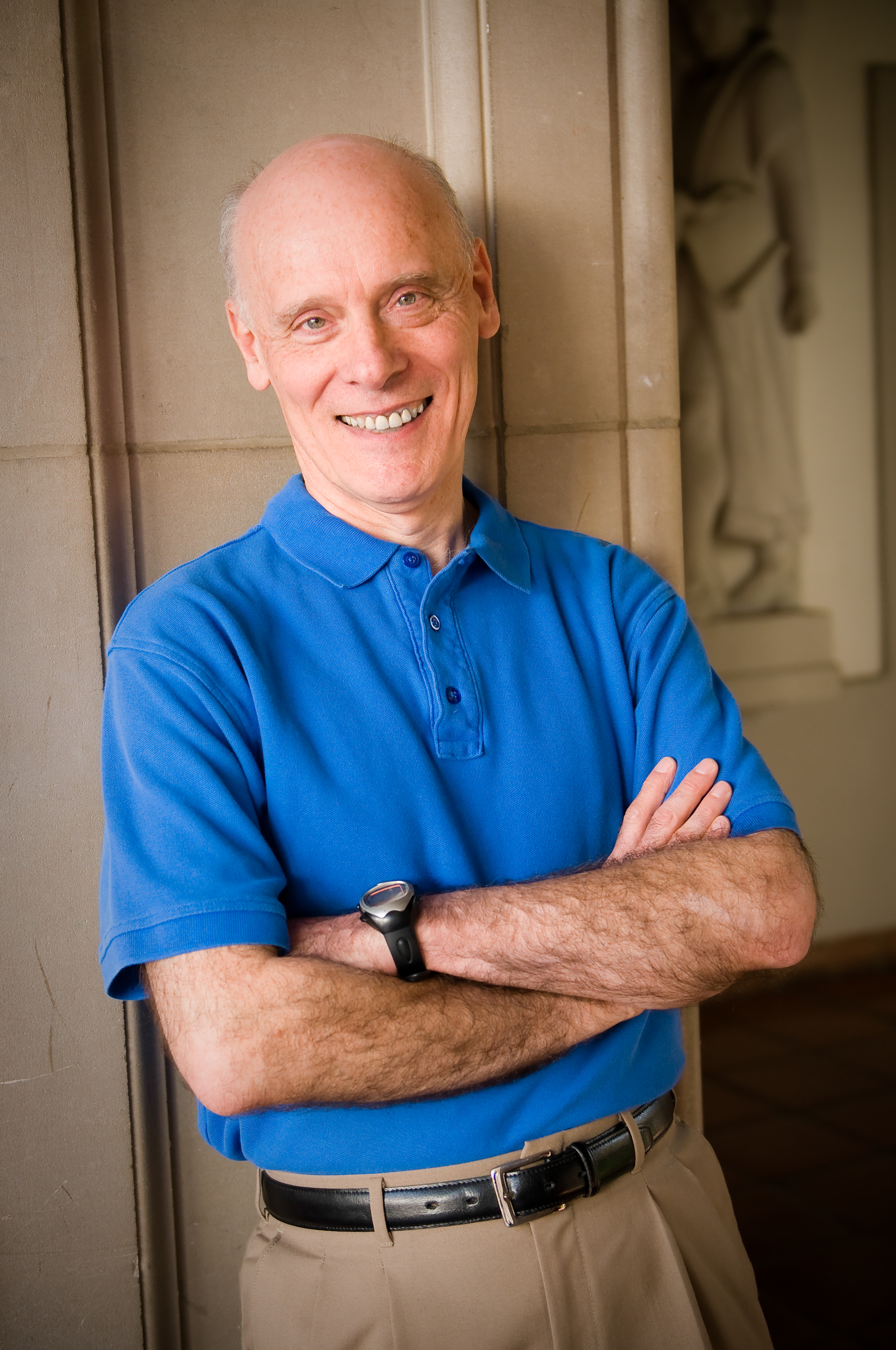 Hugh Ross